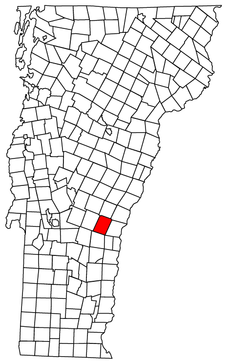 Description: Map of Vermont towns with Woodstock highlighted Source: Map created by Jared C. Benedict on 26 March 2004. Copyright: © Jared C. Benedict.